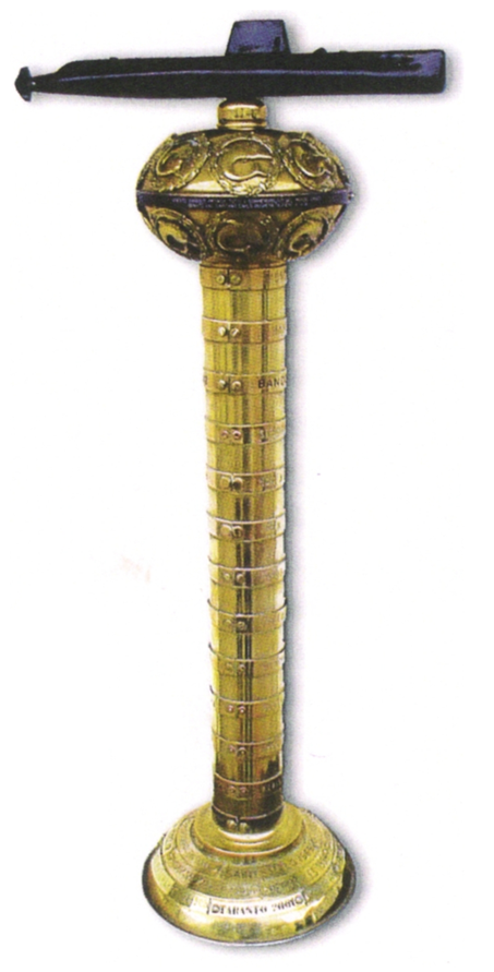 The Tower - International Submariners Association symbol